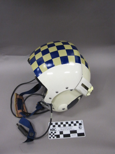 Accession: 69-452-D Uniform, Flight Helmet Flight Helmet worn by CDR Don Jones, pilot of helicopter # 66 during the Apollo 11 recovery mission. Collection of Curator Branch, Naval History and Heritage Command.